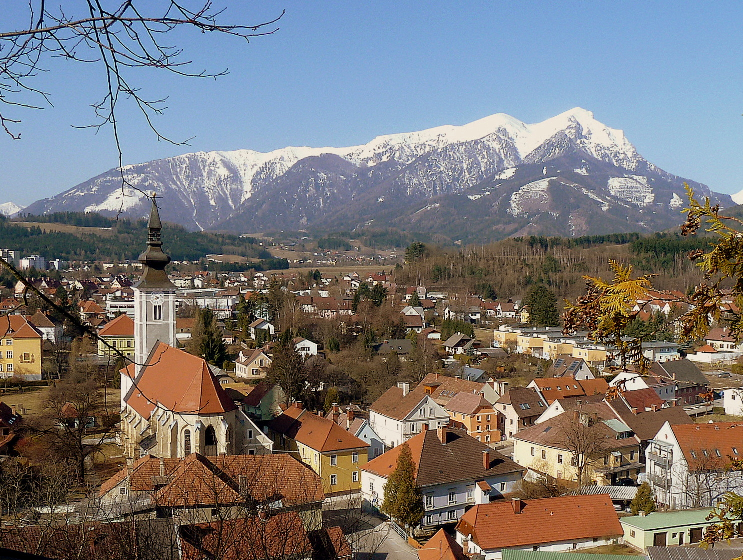 Parish Church of Trofaiach with Reiting